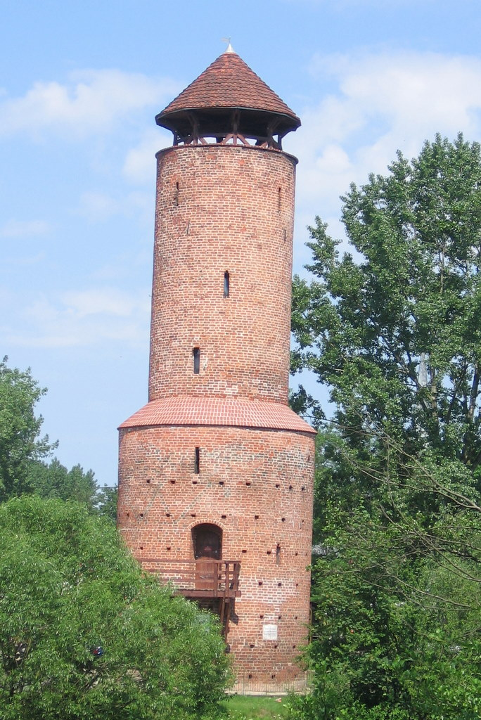 Powder tower in Gryfice near Rega river; Poland